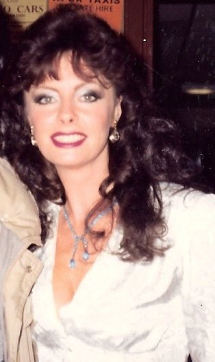 Vicki Michelle, an English actress, on tour in the stage show 'Allo 'Allo in 1986.